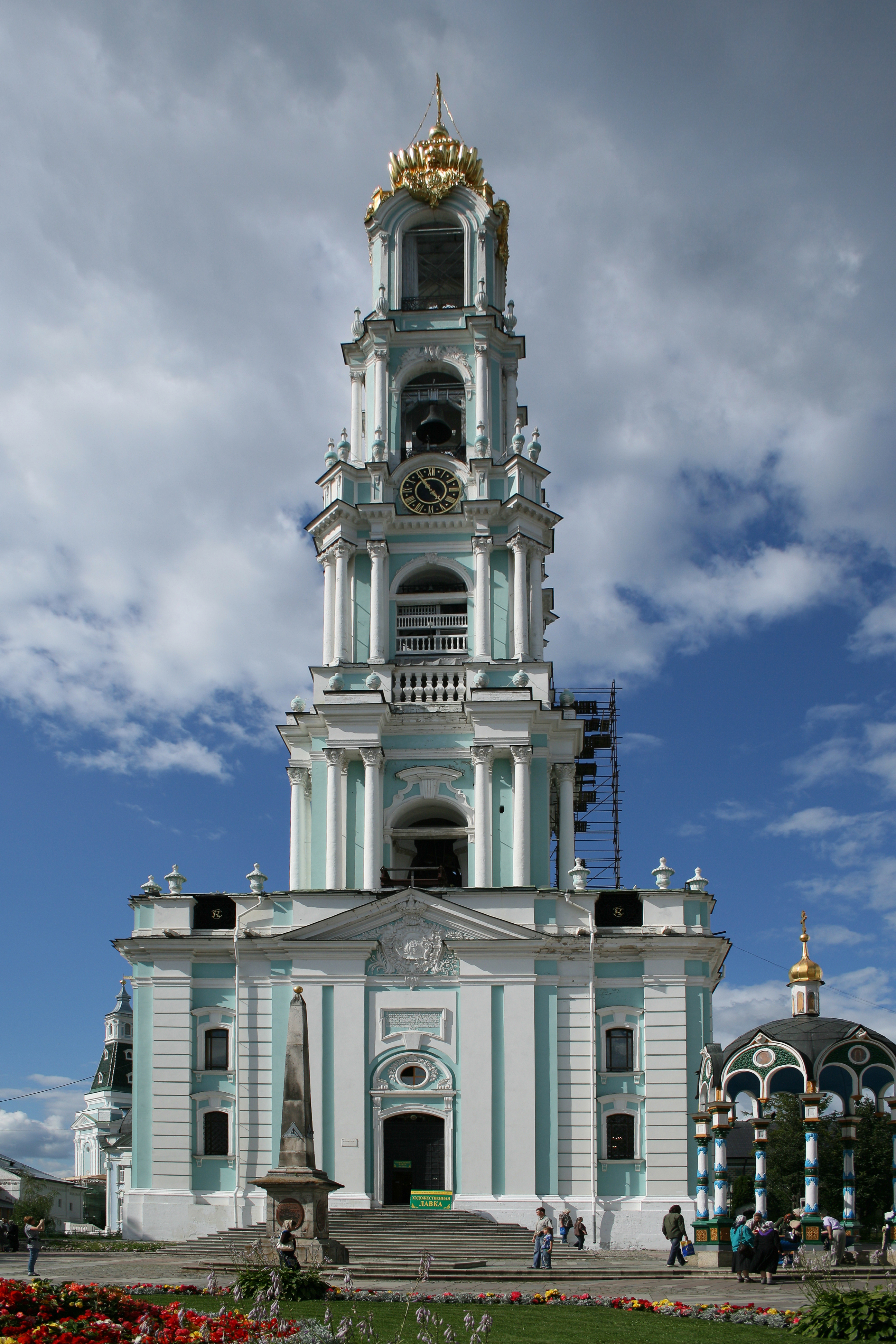 Bell Tower of Trinity-Saint Sergius Lavra, Sergiev Posad, Moscow Oblast